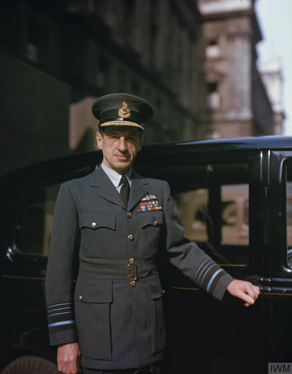 Air Chief Marshal Sir Charles Portal, Kcb, Dso, Mc, Chief of Air Staff 1940-1945 Half-length portrait of Air Chief Marshal Sir Charles Portal, KCB, DSO, MC, standing by a staff car outside Air Ministry buildings in London.